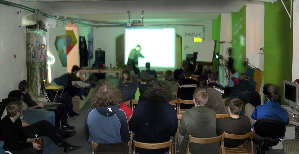 Lecture "Bluetooth hacking" at the Metalabs mainroom.